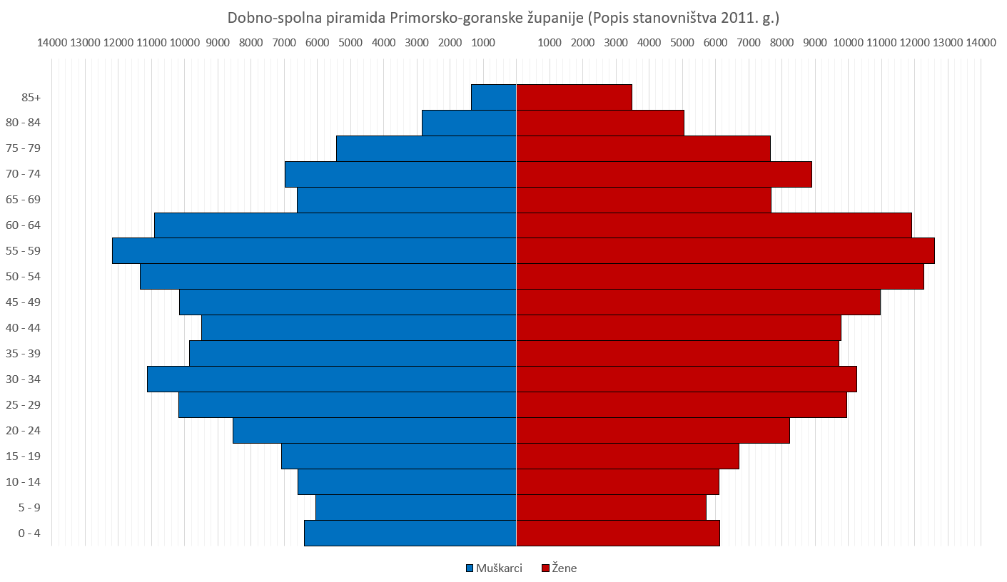 Population pyramid of Primorje-Gorski kotar County. Version in Croatian. Data from 2011 Census; available at